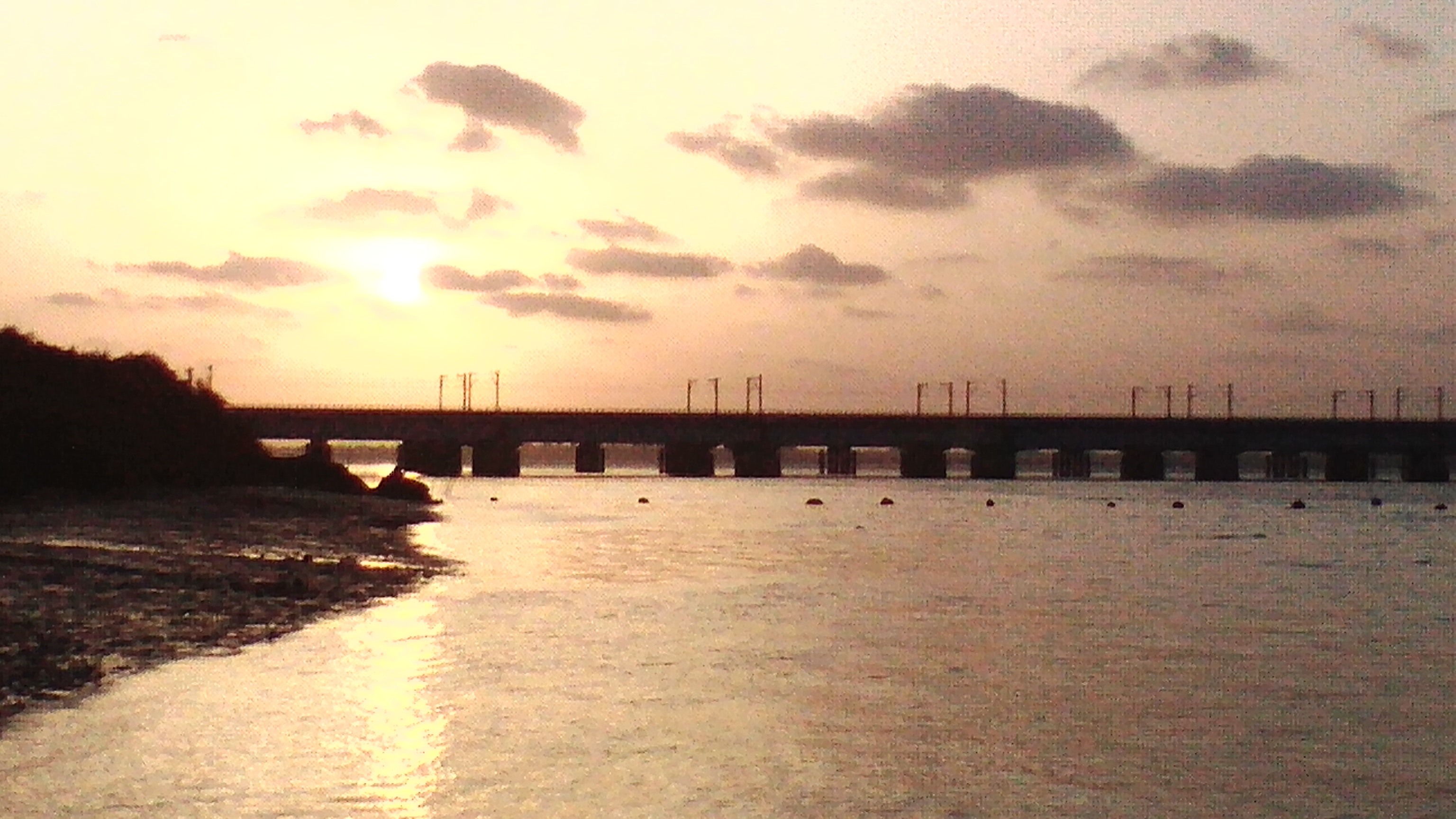 Sunset View at Jesal Park Chowapatty, Bhayandar (East)